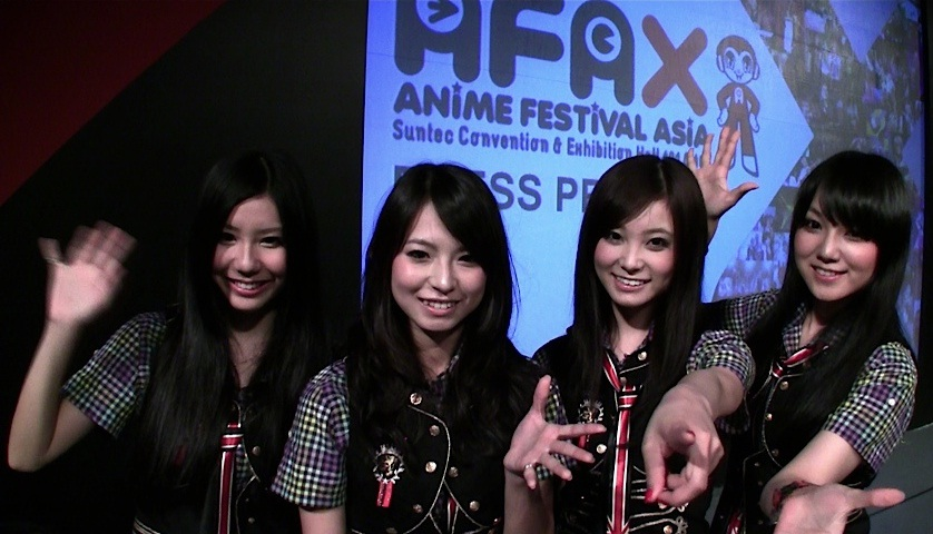 Japanese rock band Scandal at AFAX 2010. From left to right: Tomomi, Haruna, Rina, Mami.